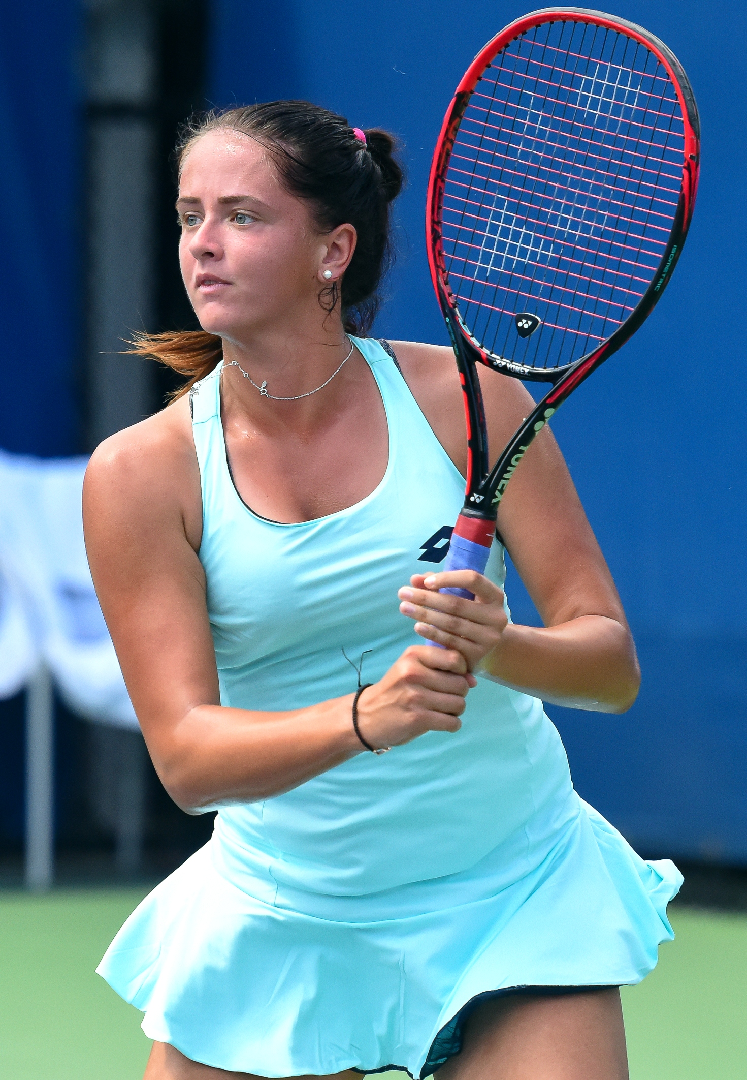 August 25, 2017, Court 8 Flushing Meadows, NY, Viktória Kužmová, Slovak female tennis player, Qualifying Round.